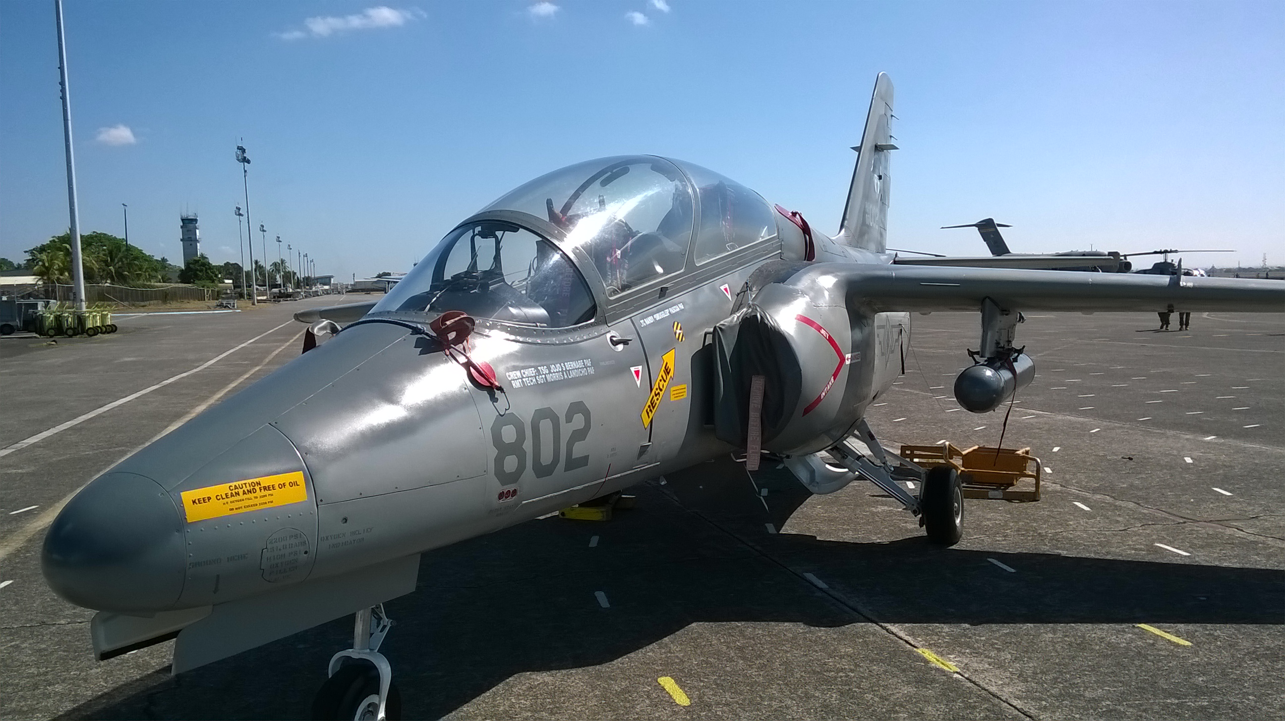 On display with two 2.75in rocket pods, one on each wing.